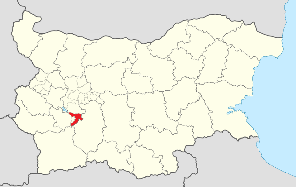 Location map of Kostenets Municipality within Bulgaria and Sofia province